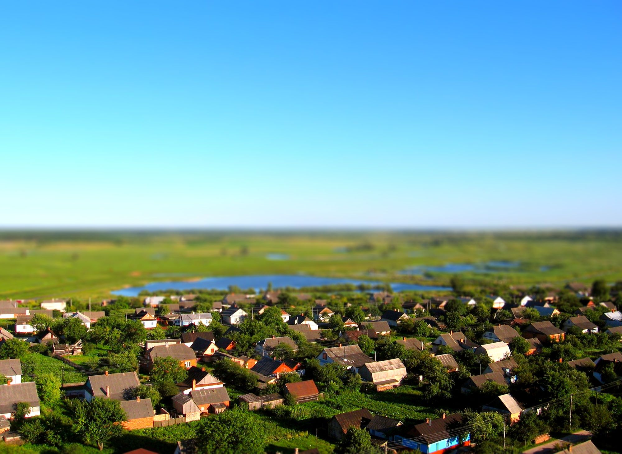 Stepań panoramics